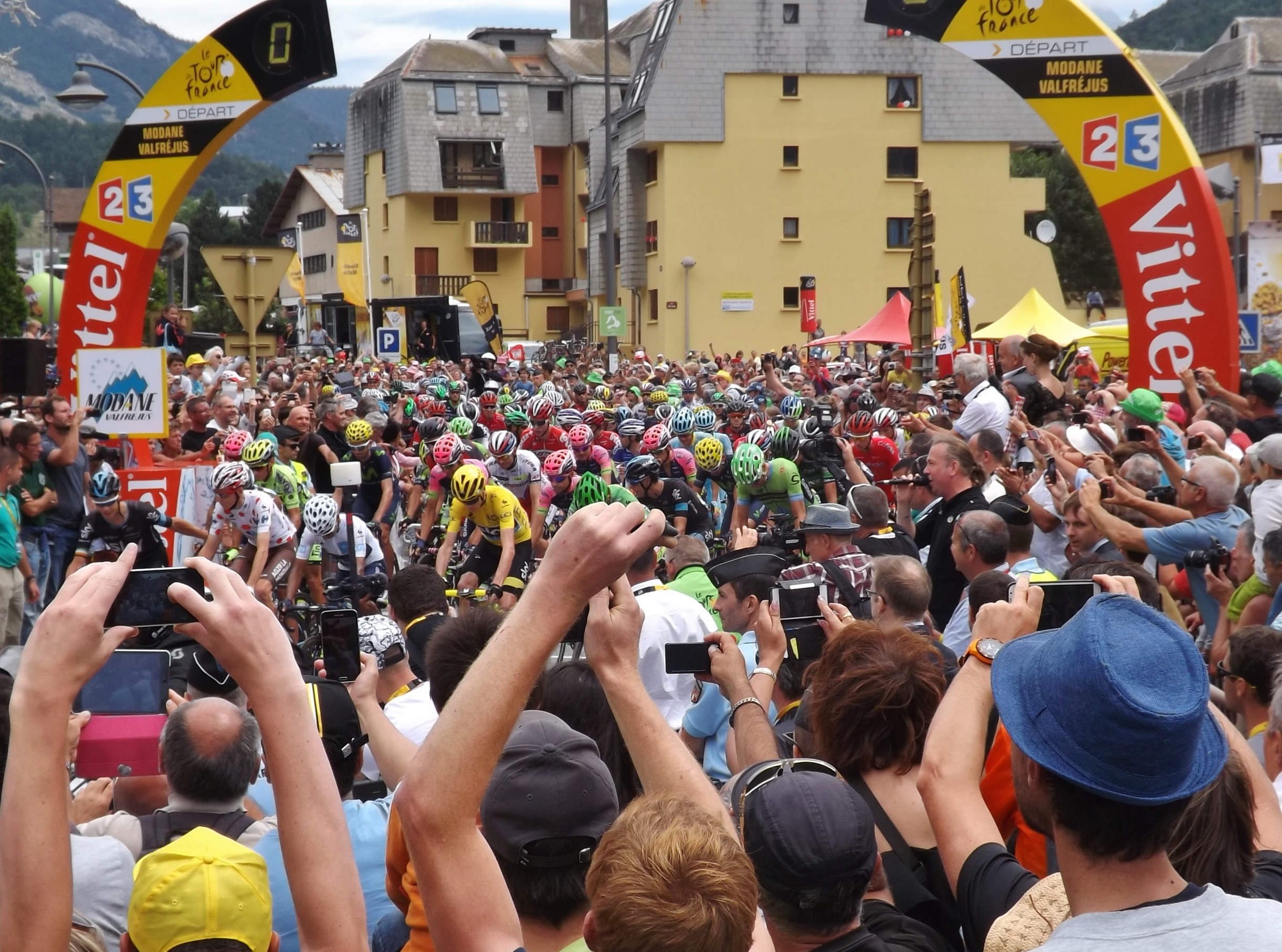 Sight of the Tour de France cyclists on the start line of the 20th stage, in Modane, Savoie.